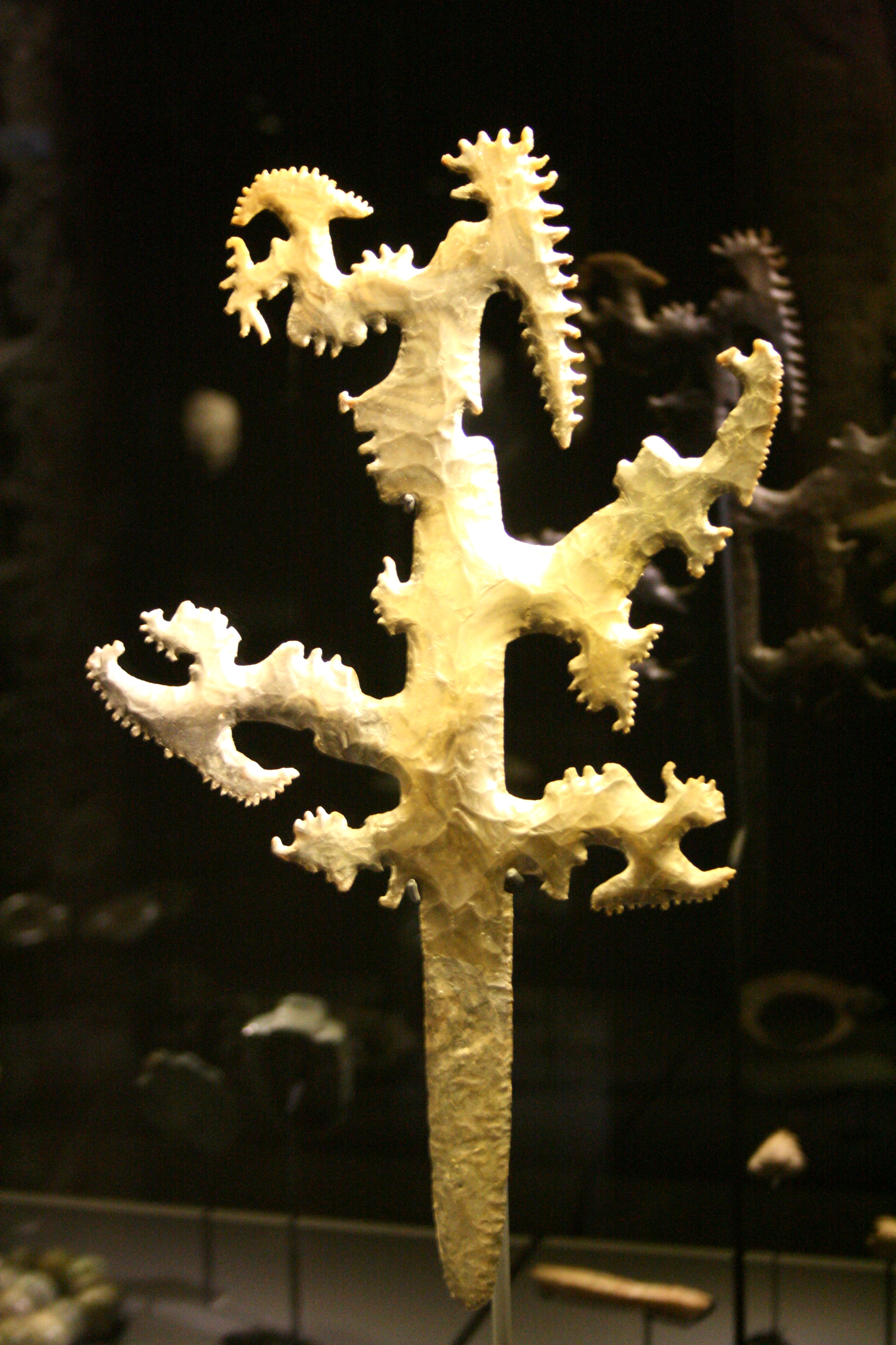 Maya eccentric flint. Classic Period. Maybe from Copan or Quiriguá. Musées Roayaux d'art et d'Histoire, Brussels (Belgium)